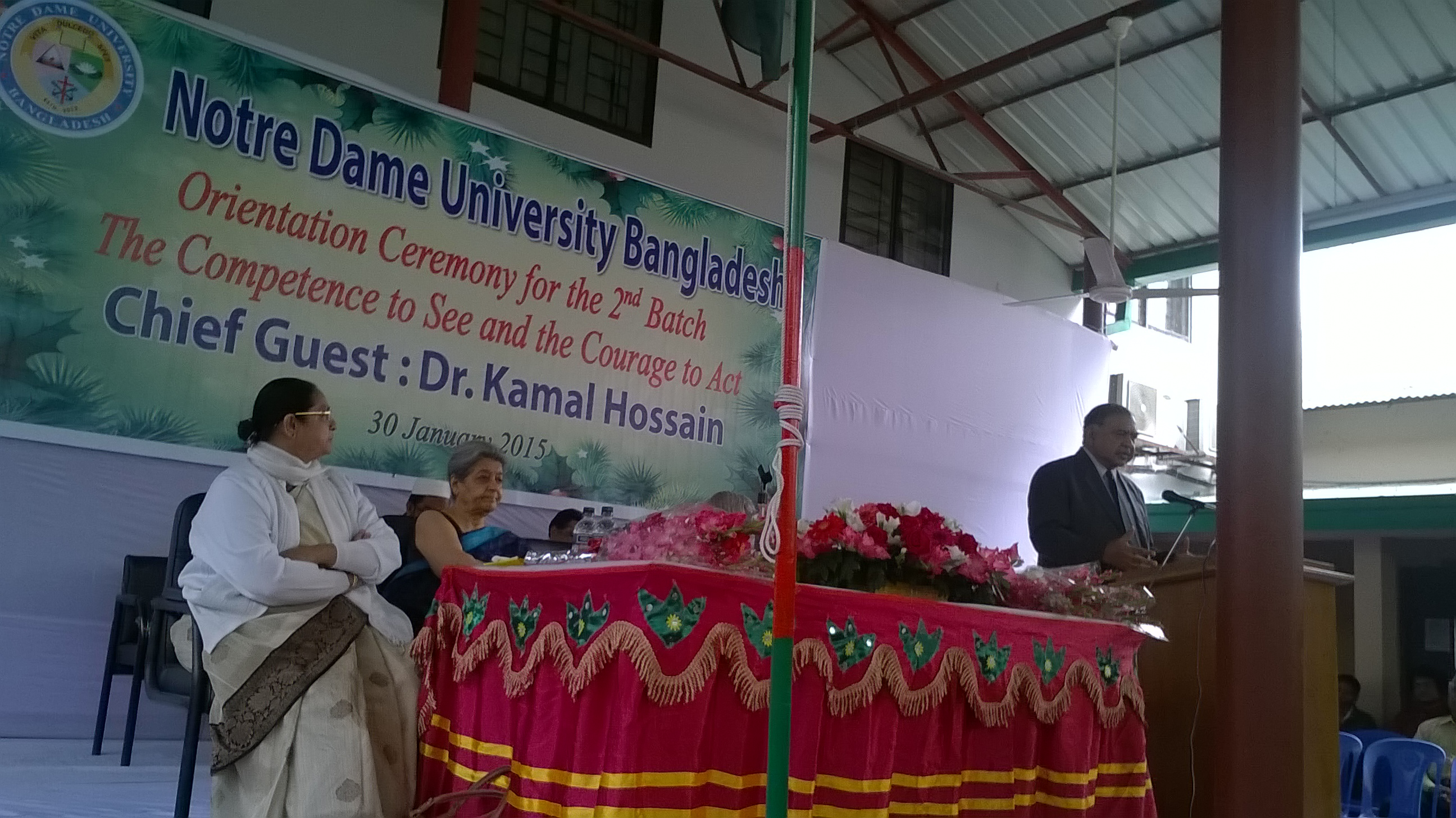 Dr. Kamal Hossain is speaking at the Orientation Ceremony for the Second Batch of NDUB on 30 January 2015.